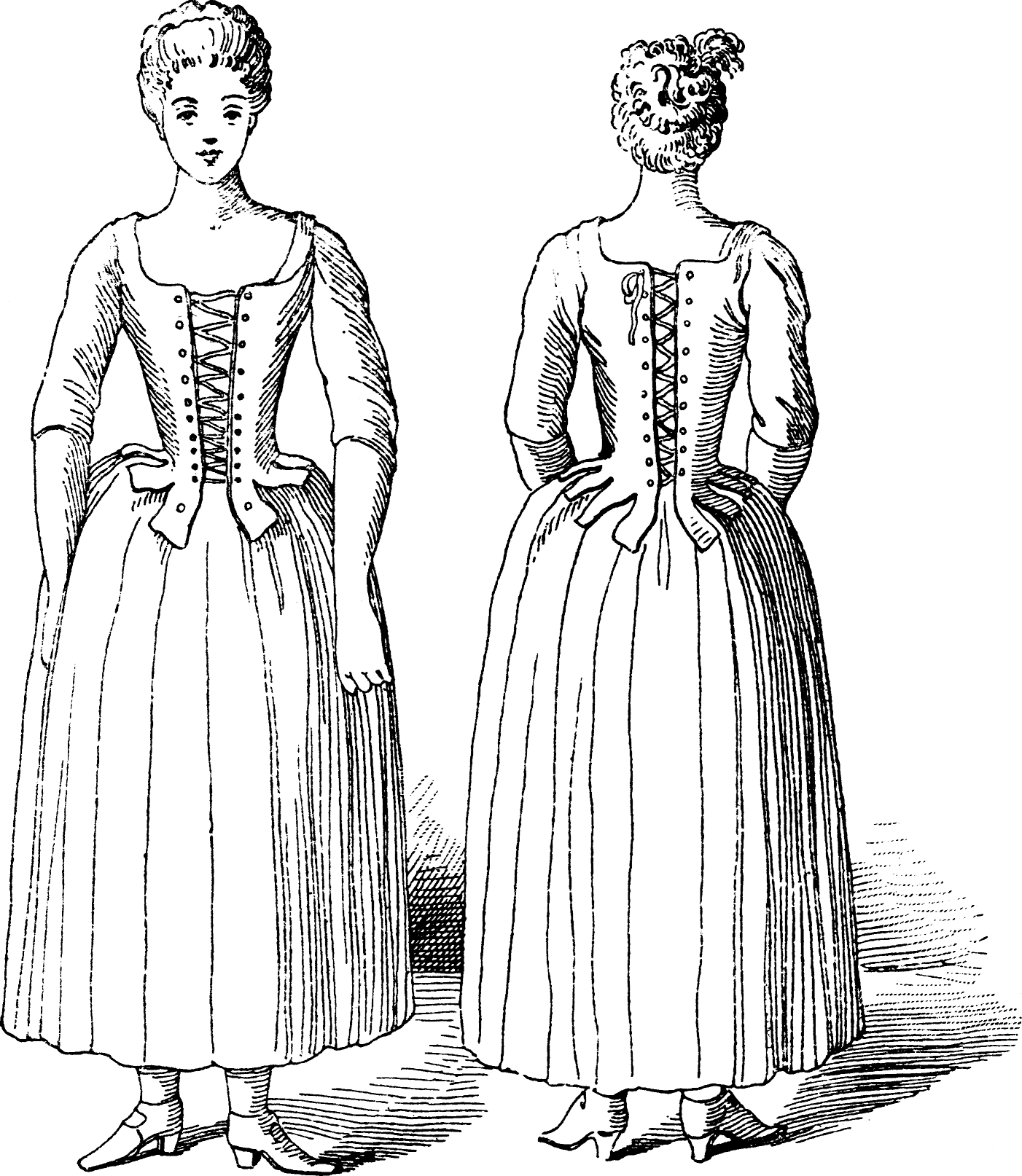 A woman with a simple leather pair of stays. Front and rear view.